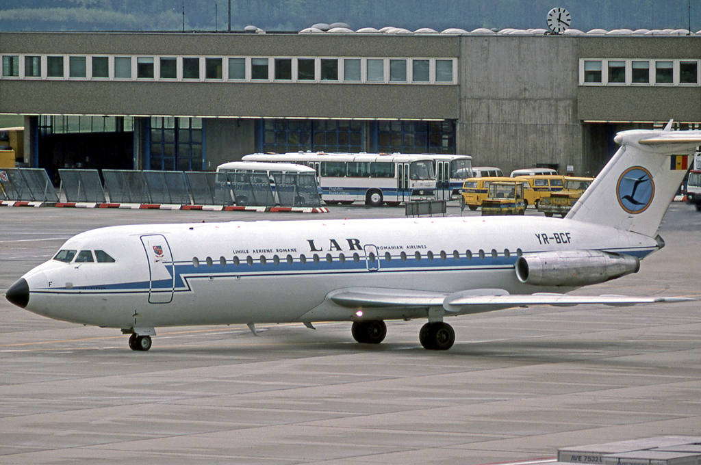 BAC 1-11 424EU YR-BCF of LAR Romanian Airlines at Frankfurt Airport in 1977